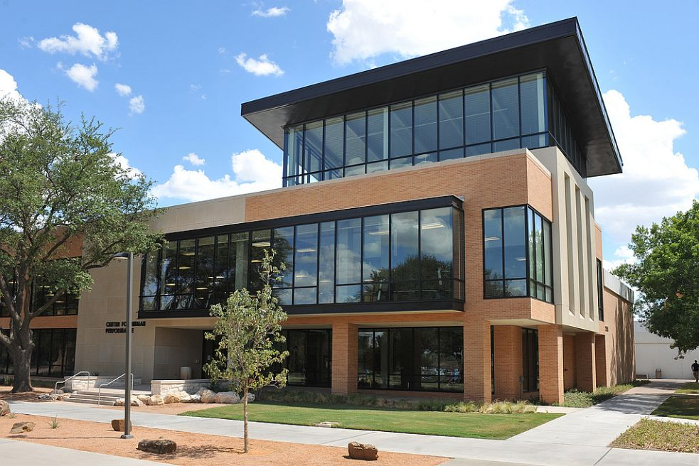 The Center for Human Performance at Angelo State University, San Angelo, Texas. 2011.